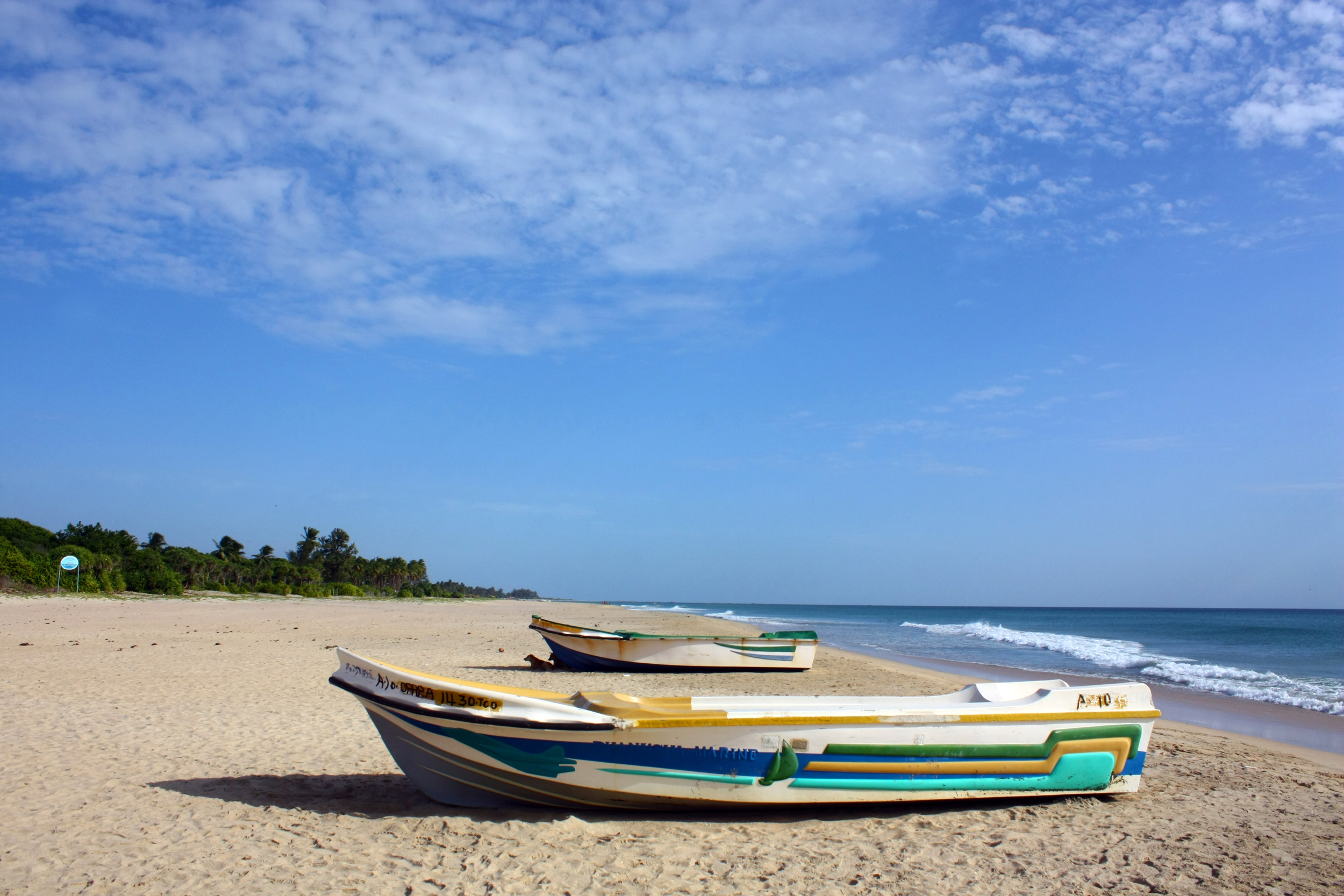 Nillaveli Beach location near the Pigeon Island National Park, Trincomalee, Sri Lanka